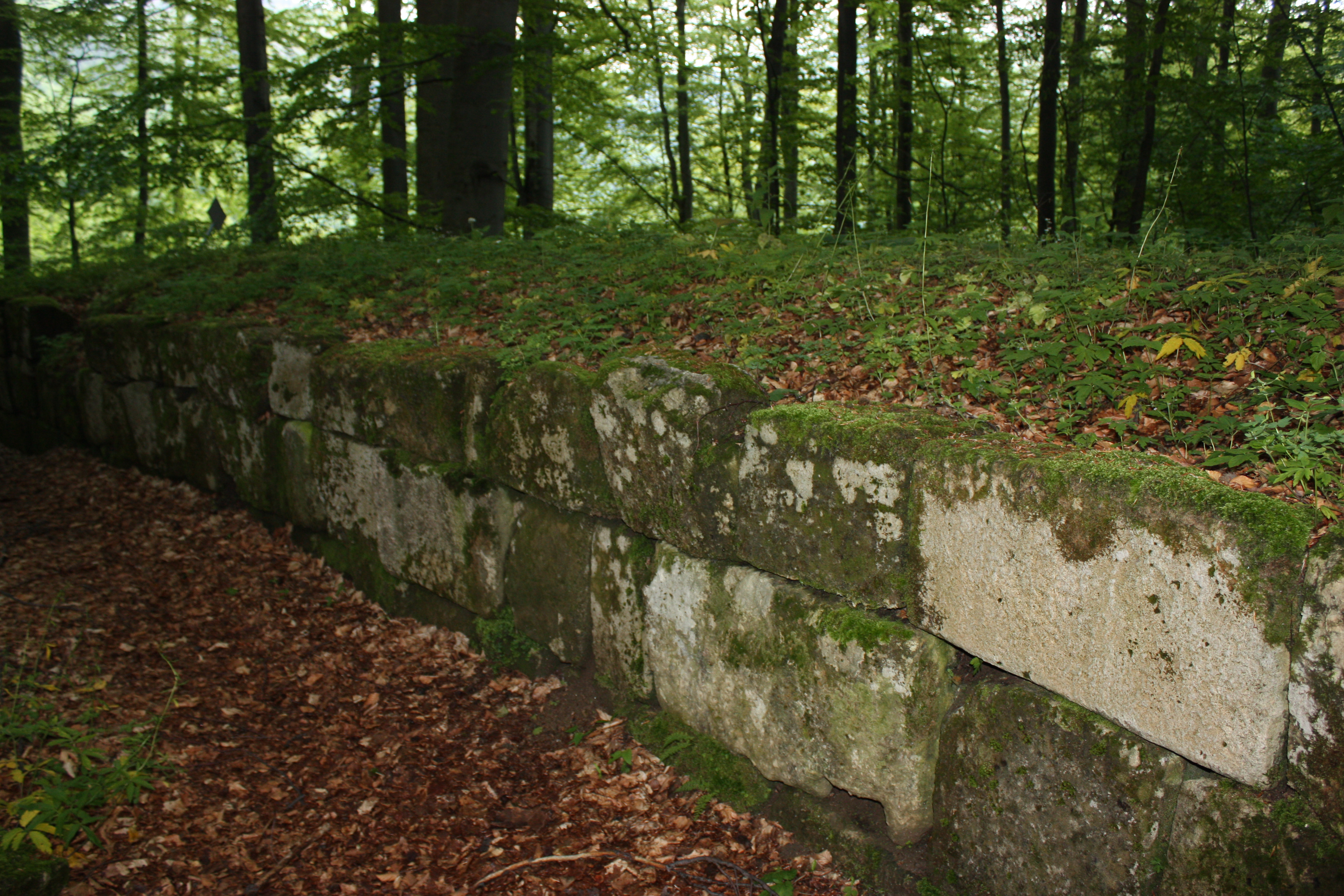 Dacian wall at Sarmizegetusa Regia. Norsk (bokmål): Muren rundt Sarmizegetusa Regia.